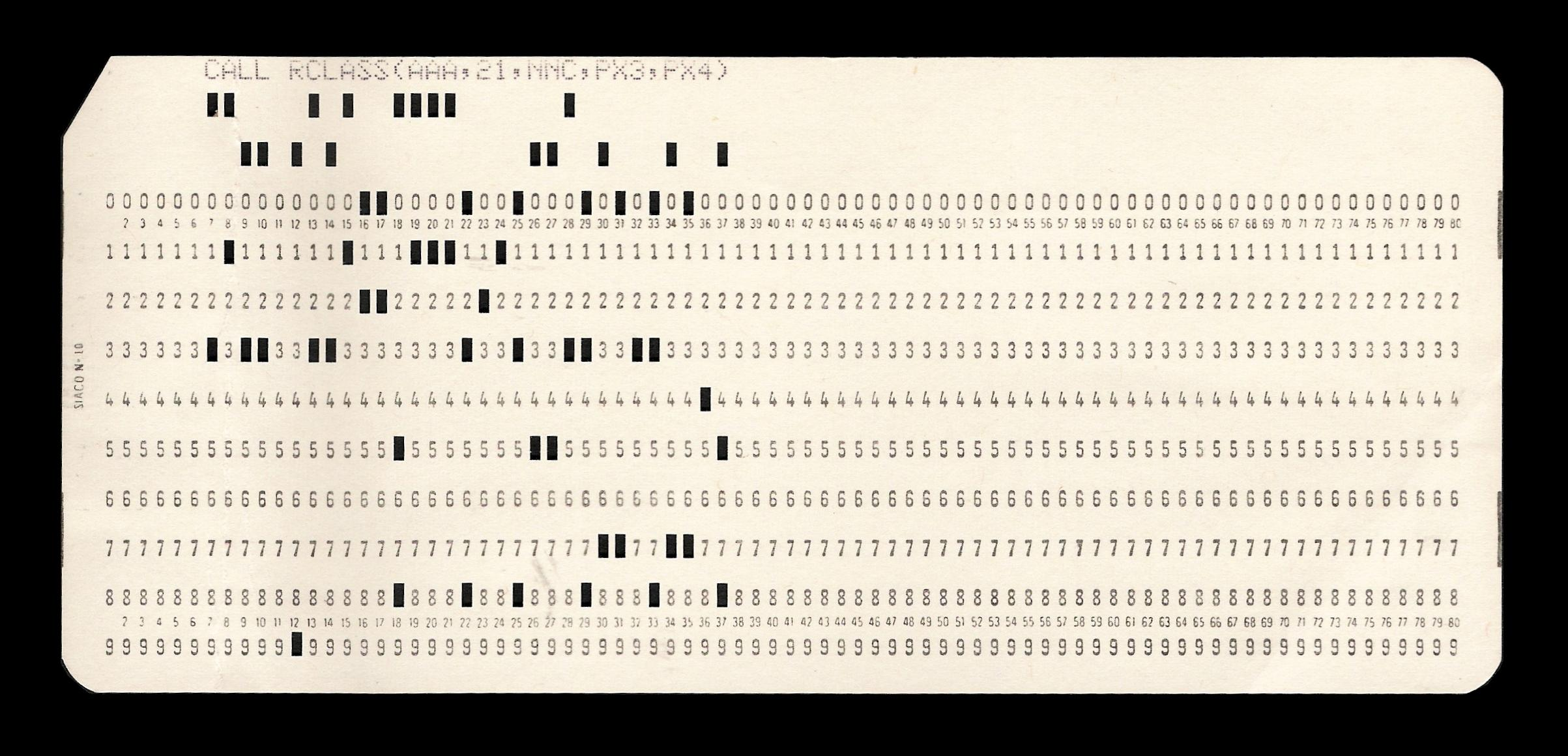 A 80 holes punched card.